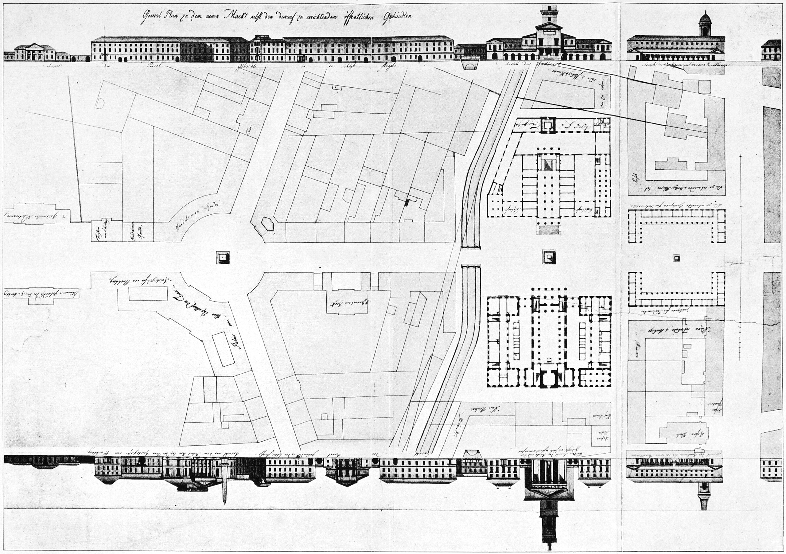 Friedrich Weinbrenner's plan for the Schloßstraße and Market place of Karlsruhe (1803).